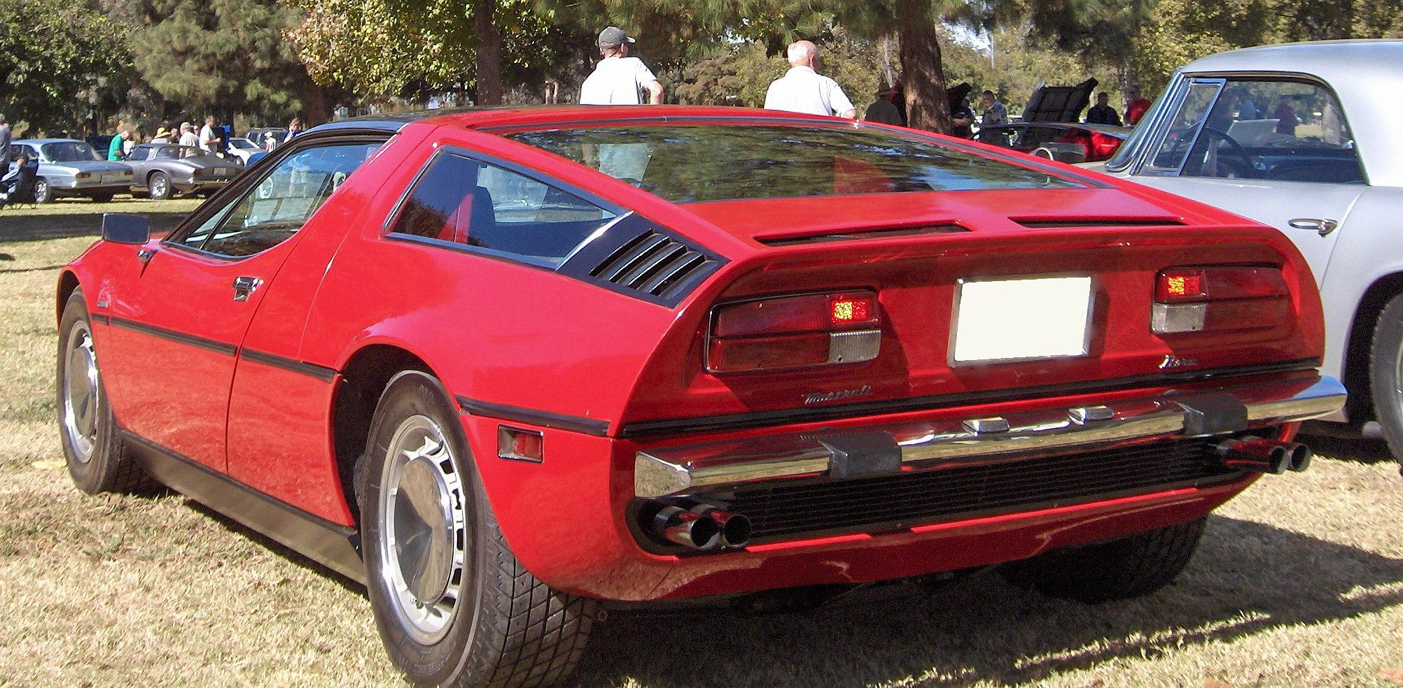 Own photo - public location.